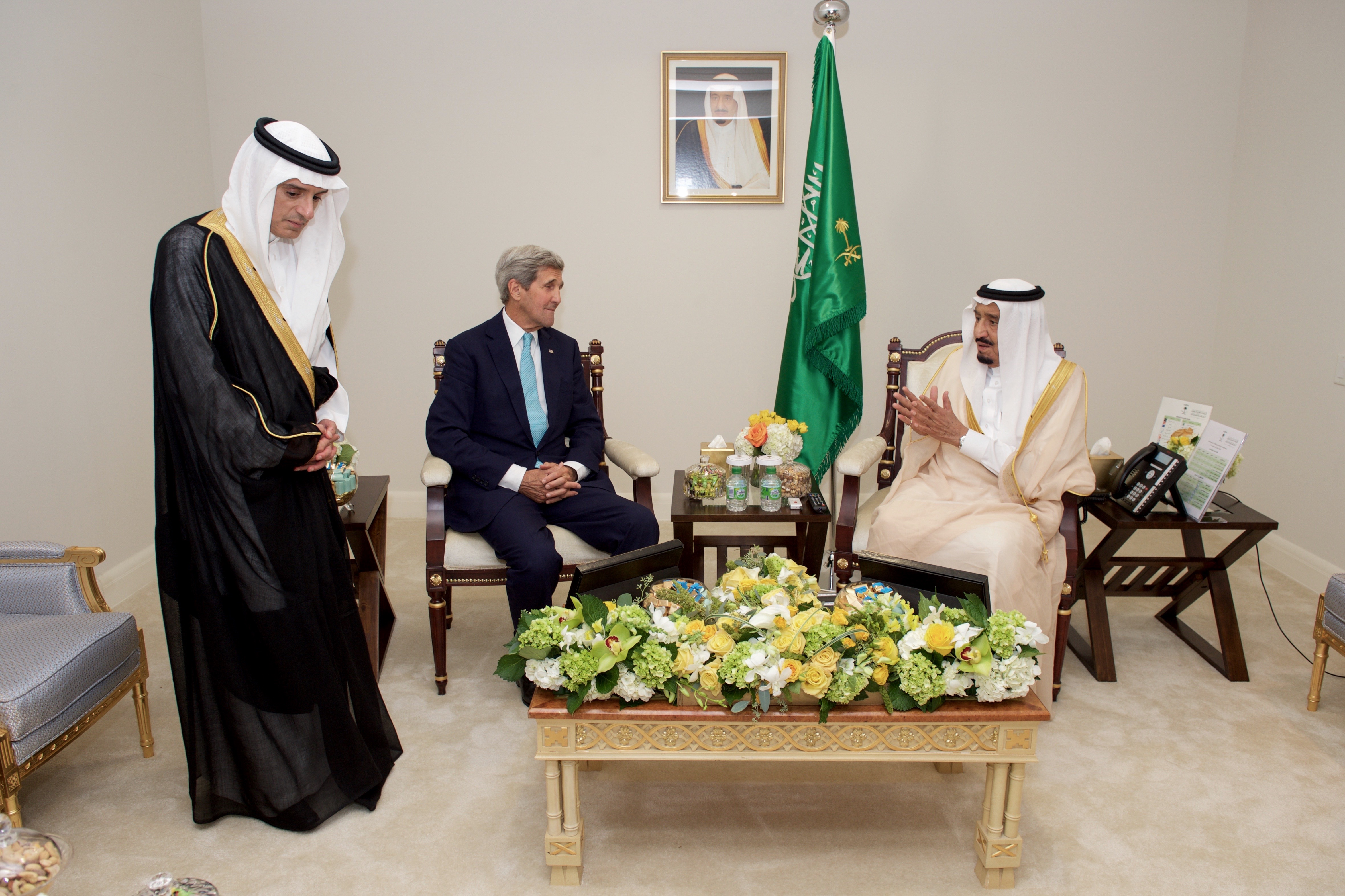 U.S. Secretary of State John Kerry sits with King Salman bin Abdulaziz of Saudi Arabia and Deputy Crown Prince and Saudi Foreign Minister Adel al-Jubeir at the Four Seasons Hotel in Washington, D.C., on September 3, 2015, during a bilateral meeting preceding the King's visit with President Barack Obama. [State Department photo/ Public Domain]